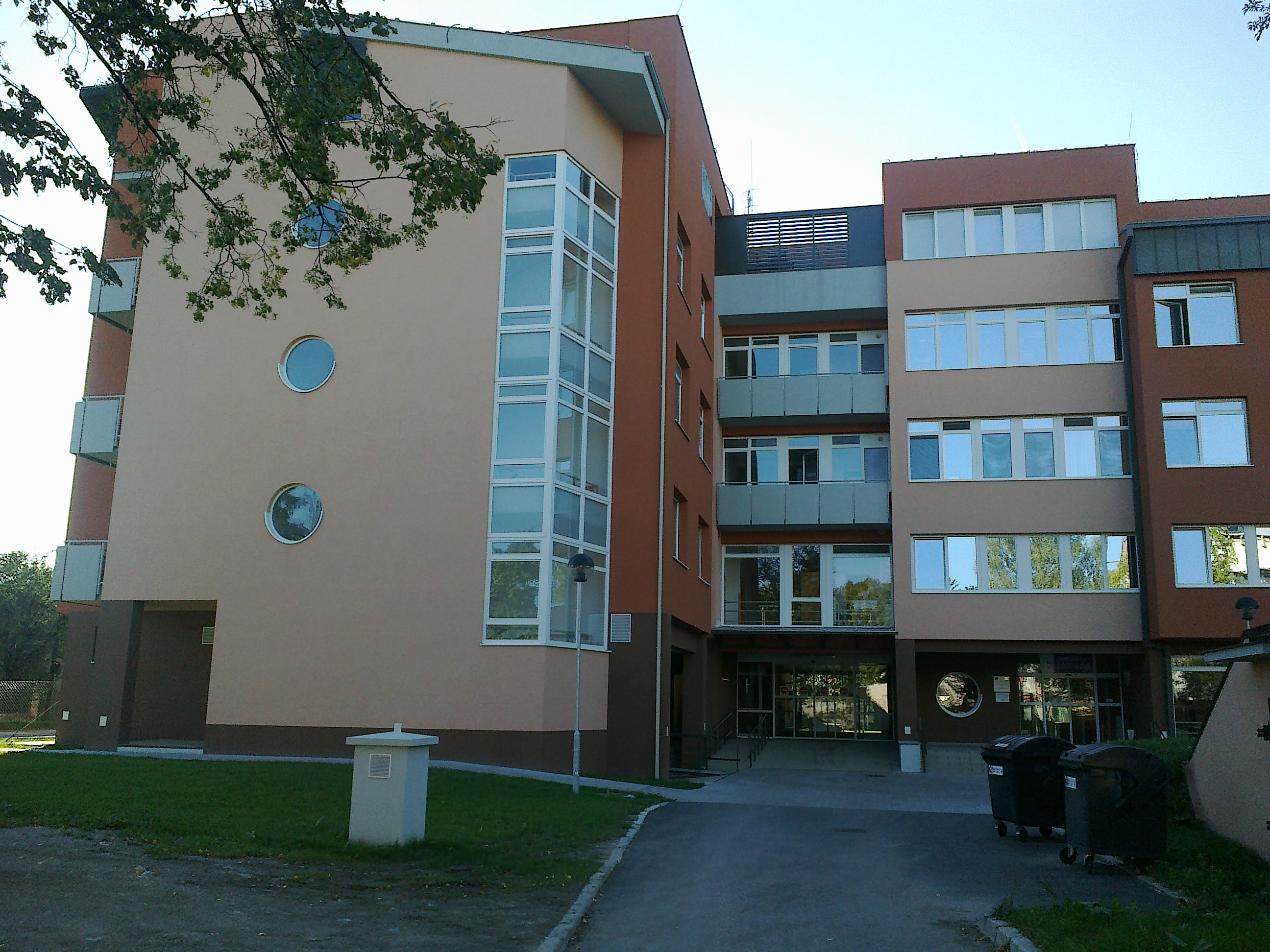 Surgical building at UNM